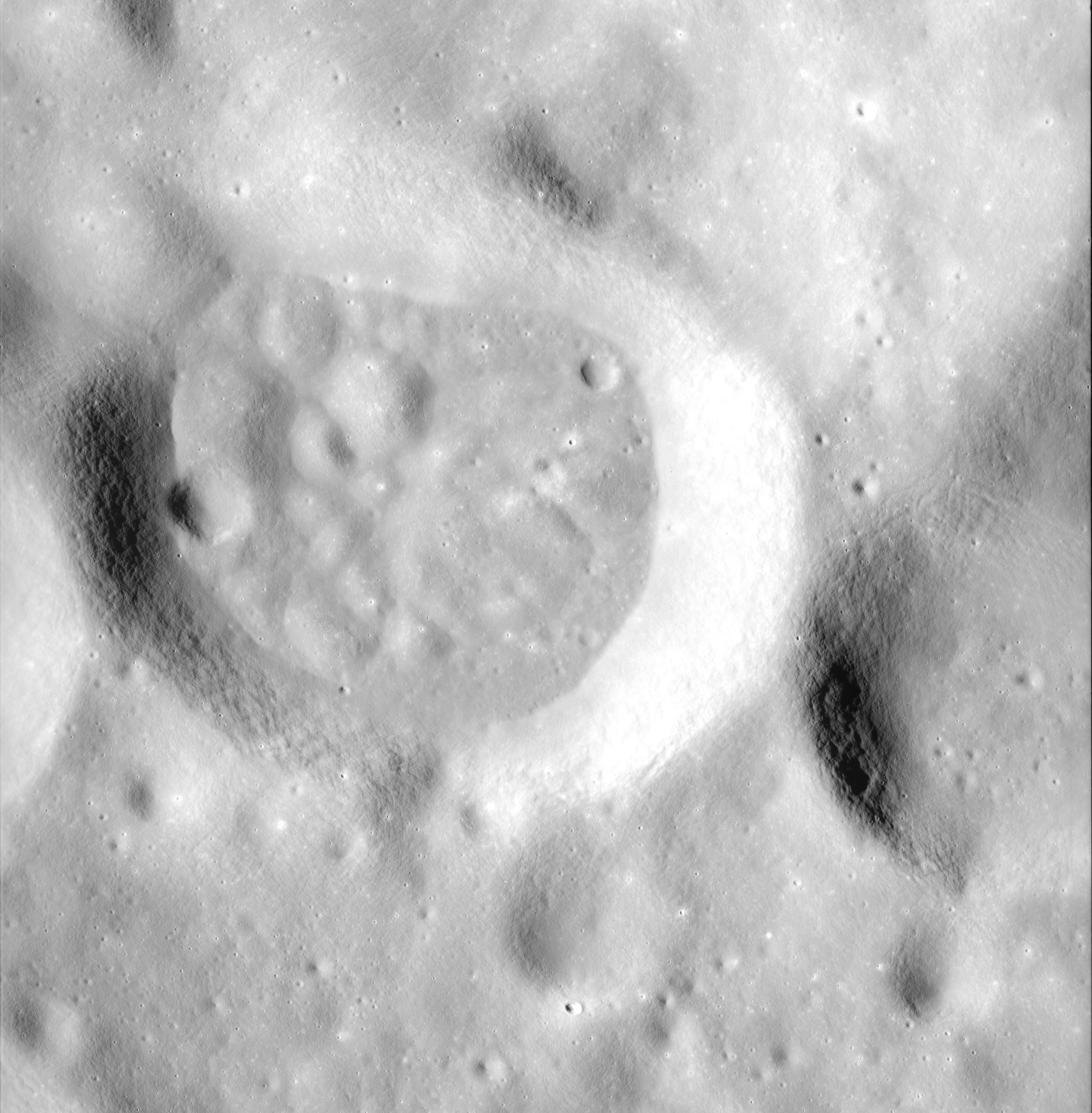 Slightly oblique view of Balandin, on the far side of the moon, with north at top.